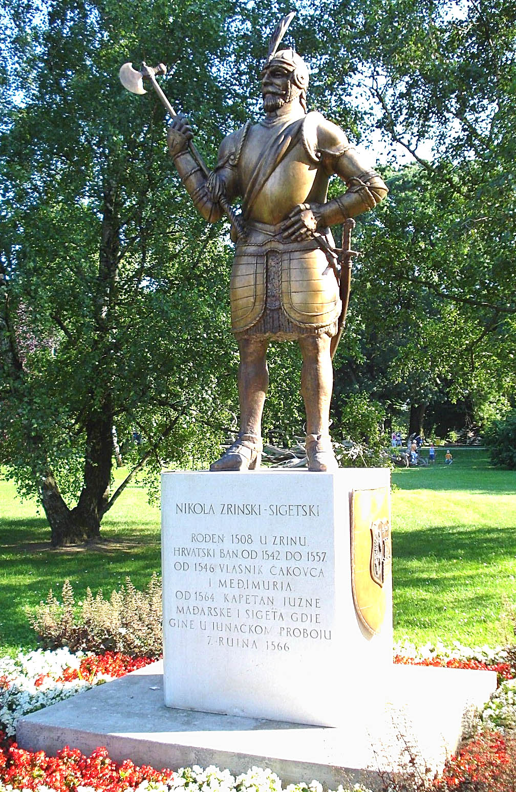 Nikola Šubić Zrinski statue in Čakovec